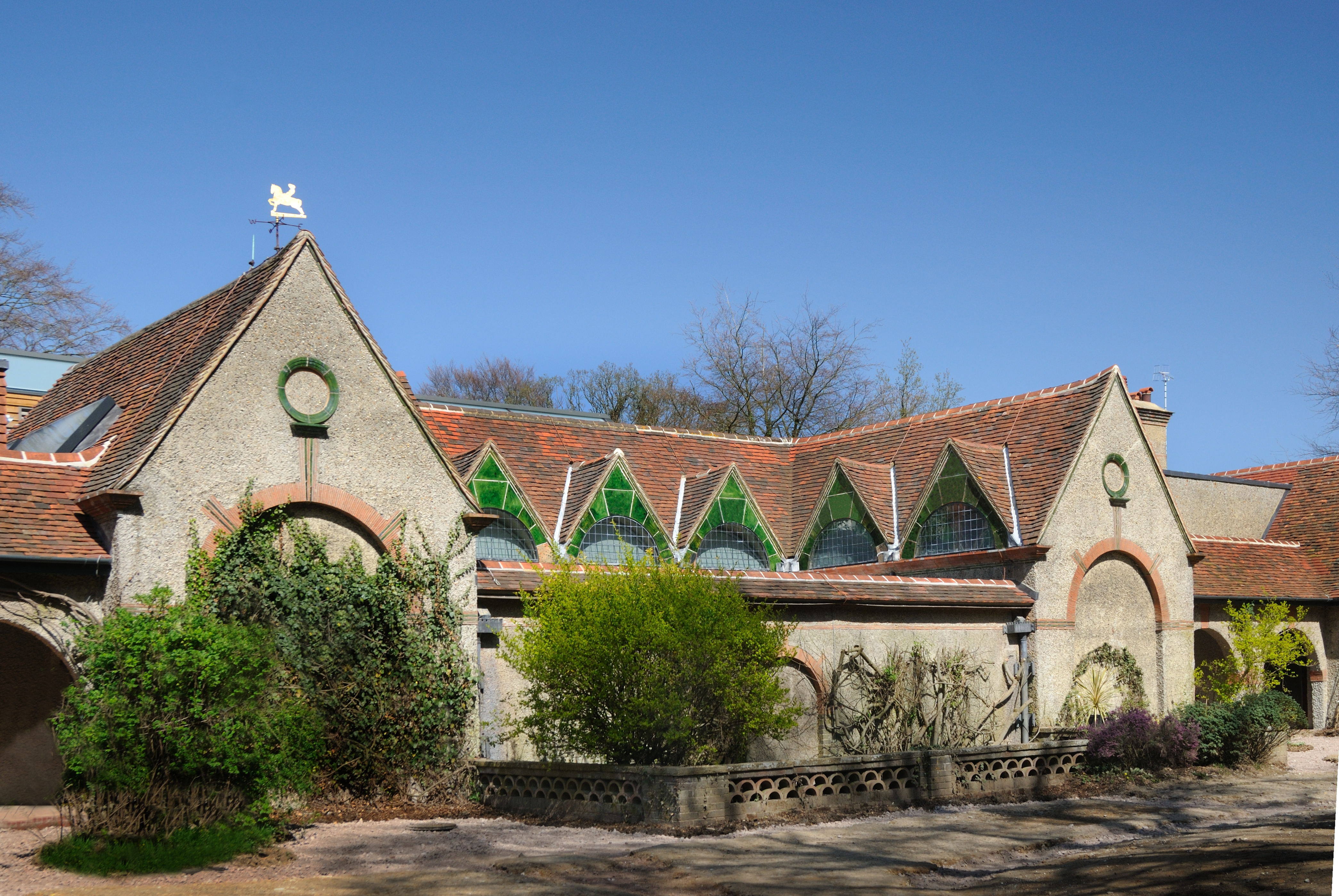 Over one hundred paintings by G.F. Watts are on permanent display at Watts Gallery. Spanning a period of 70 years they include portraits, landscapes and his major symbolic works. From the dramatic entrance of the Livanos Gallery to the monumental sculpture and studio artefacts in the Sculpture Gallery, Watts Gallery shows the unique collection left by the artist as his legacy in the heart of a village.